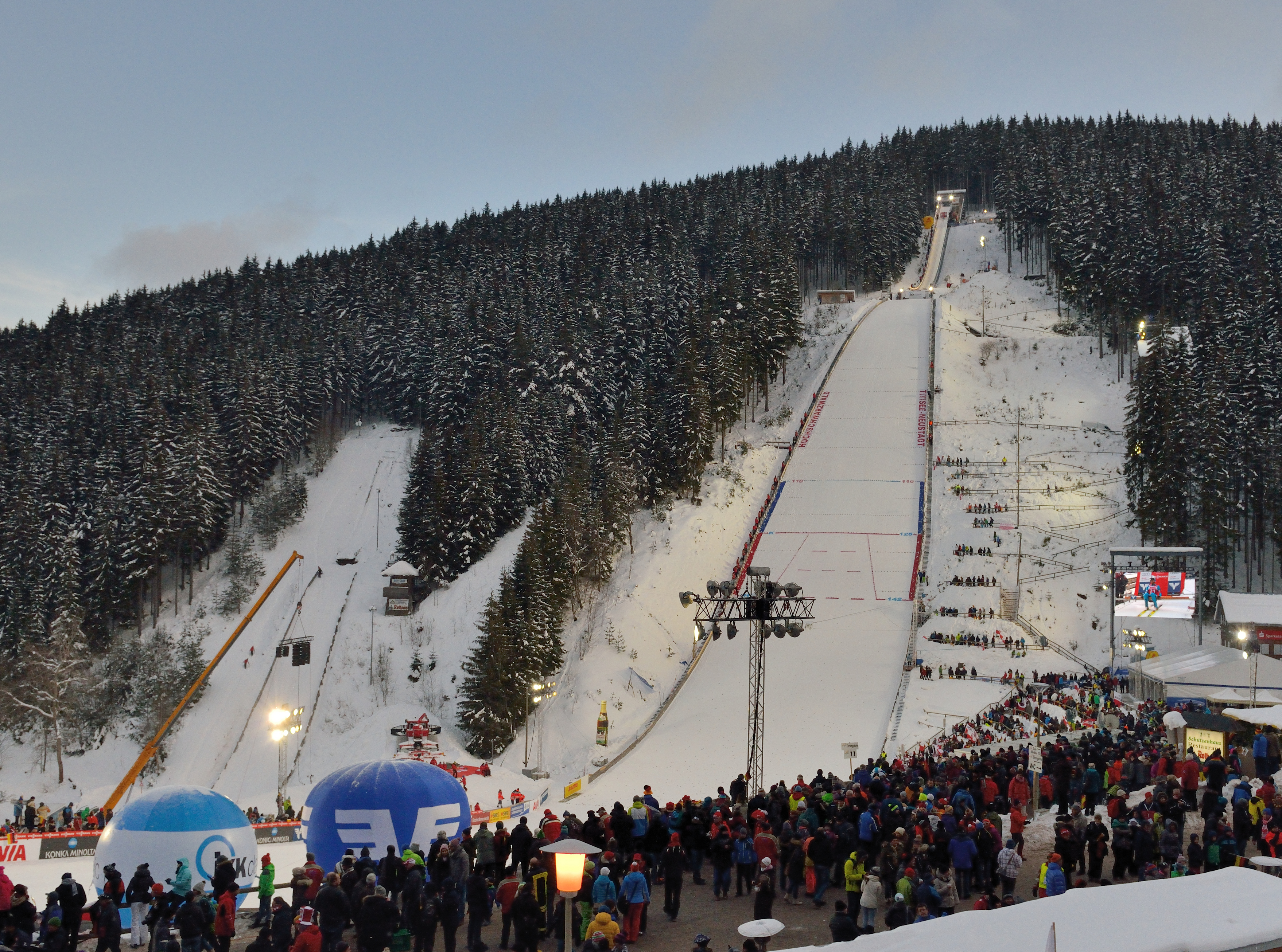 Hochfirstschanze